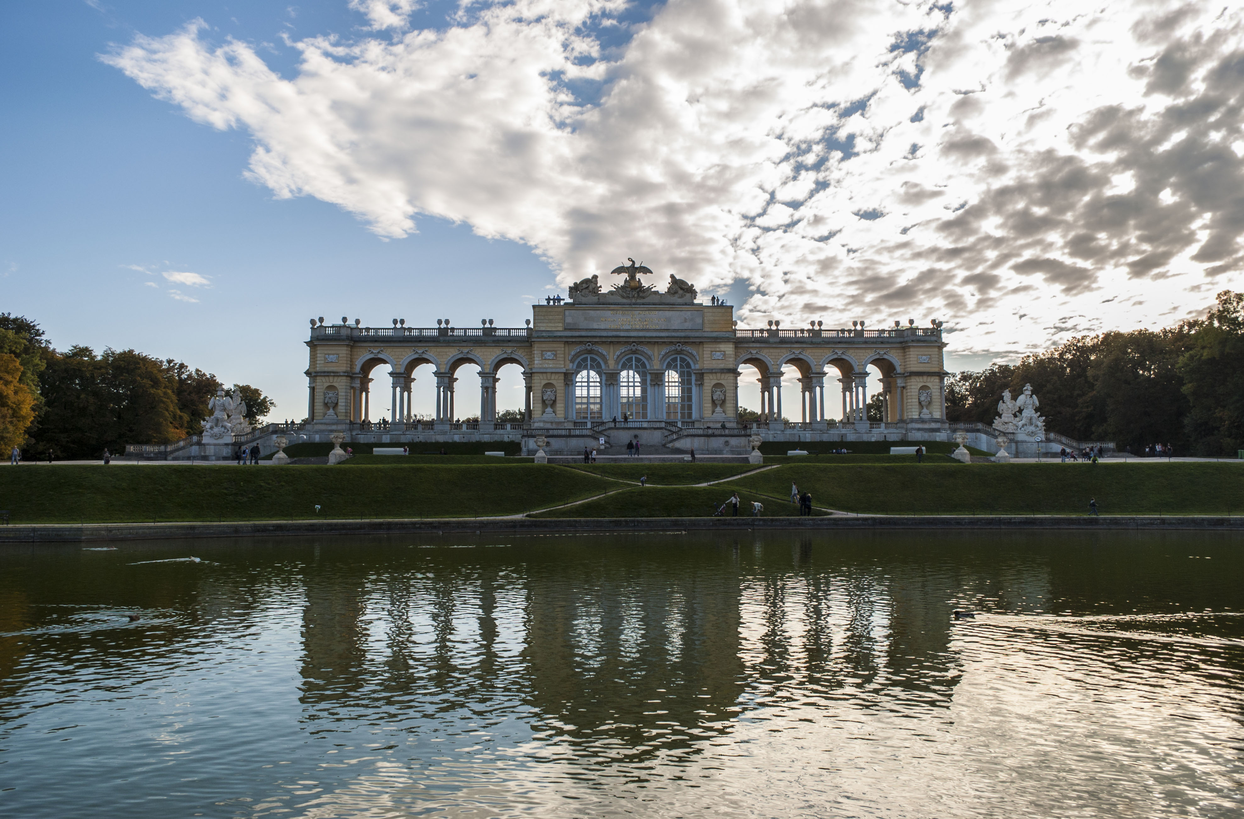 Gloriette Schönbrunn